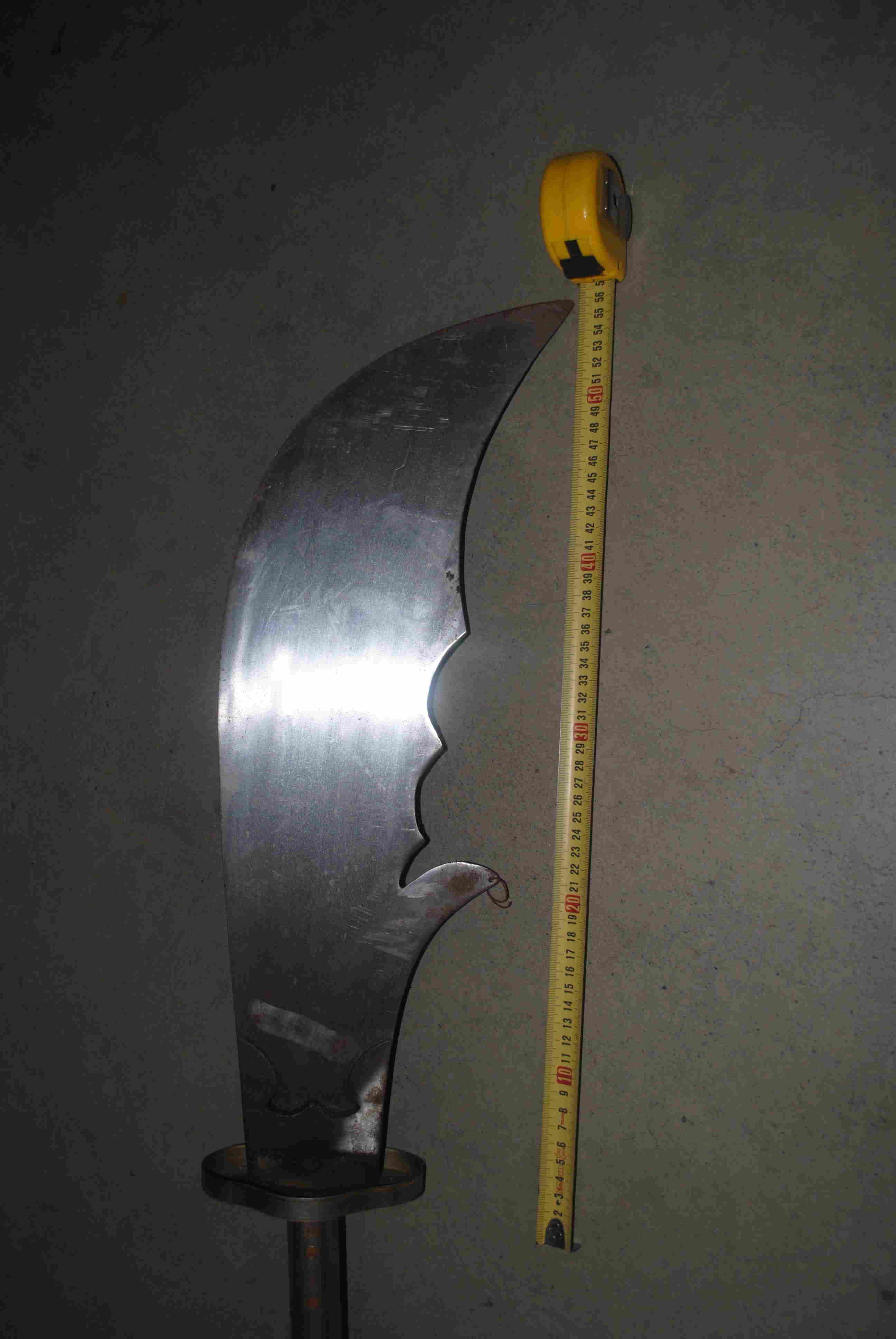 blade of Chinese Falchion